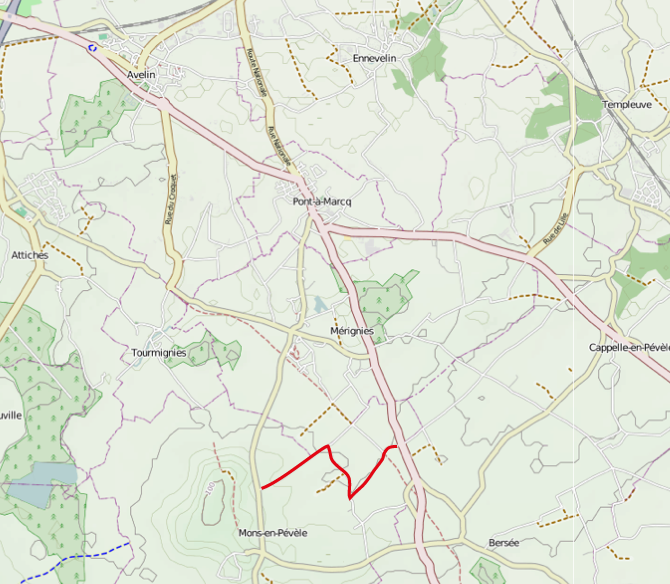 Mons-en-Pévèles cobbled sector, 3 km, 5 star.